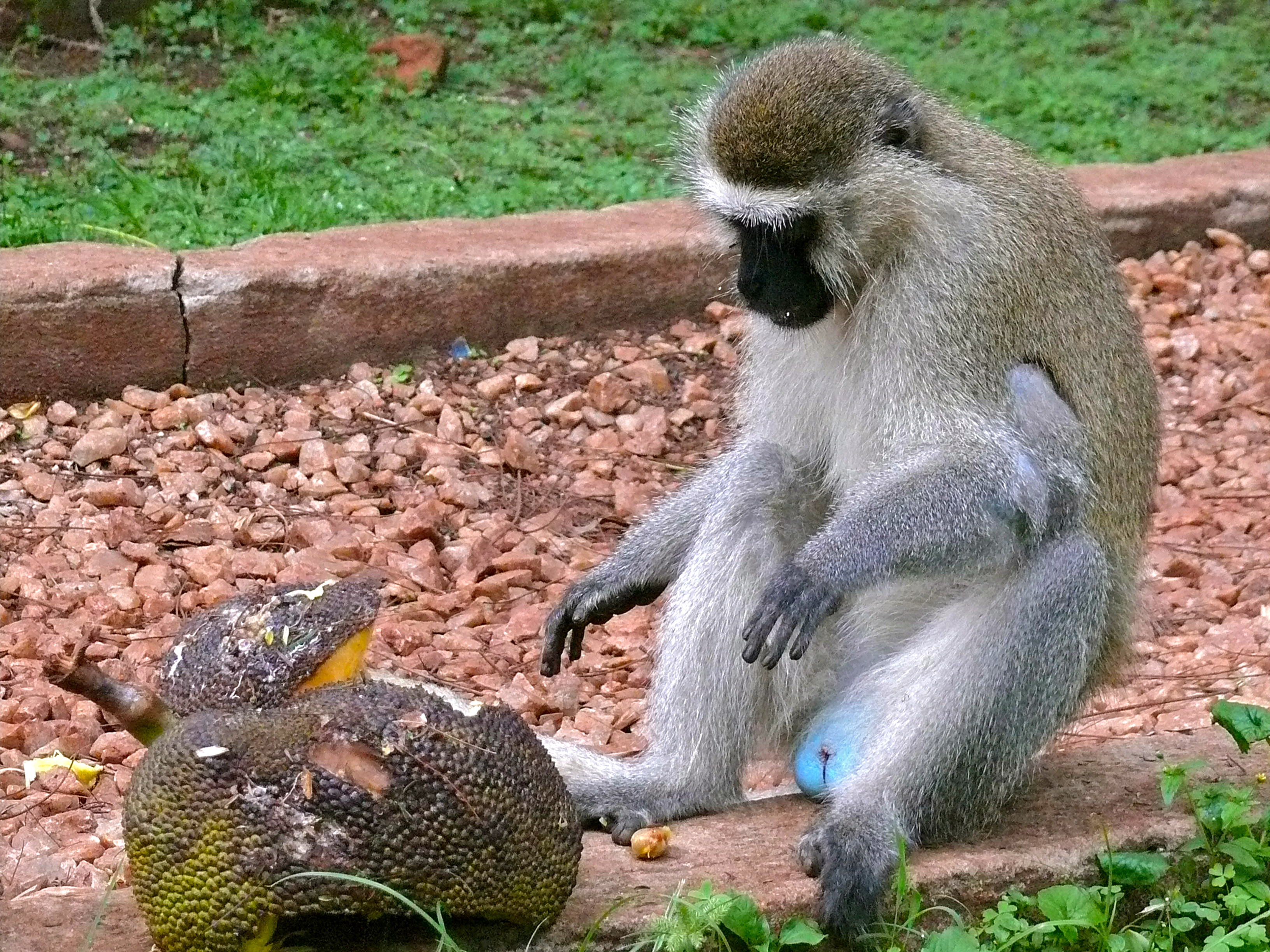 Red Chilli Hideaway, Kampala, UGANDA